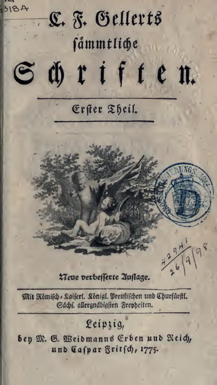 Title page